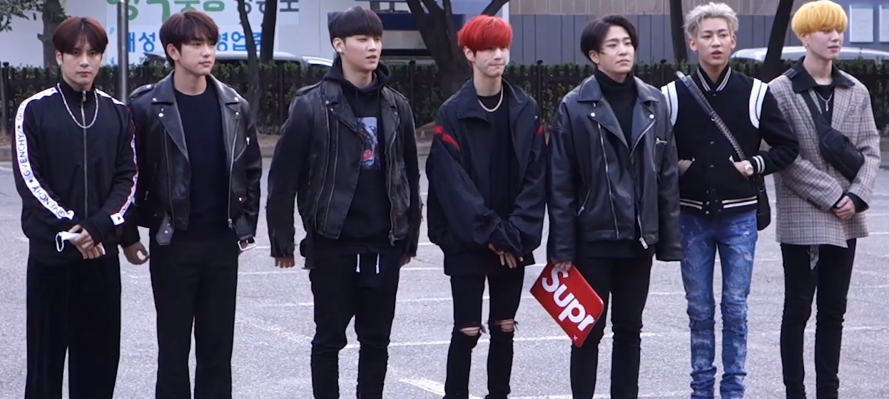 171013 GOT7 KBS Music Bank rehearsal